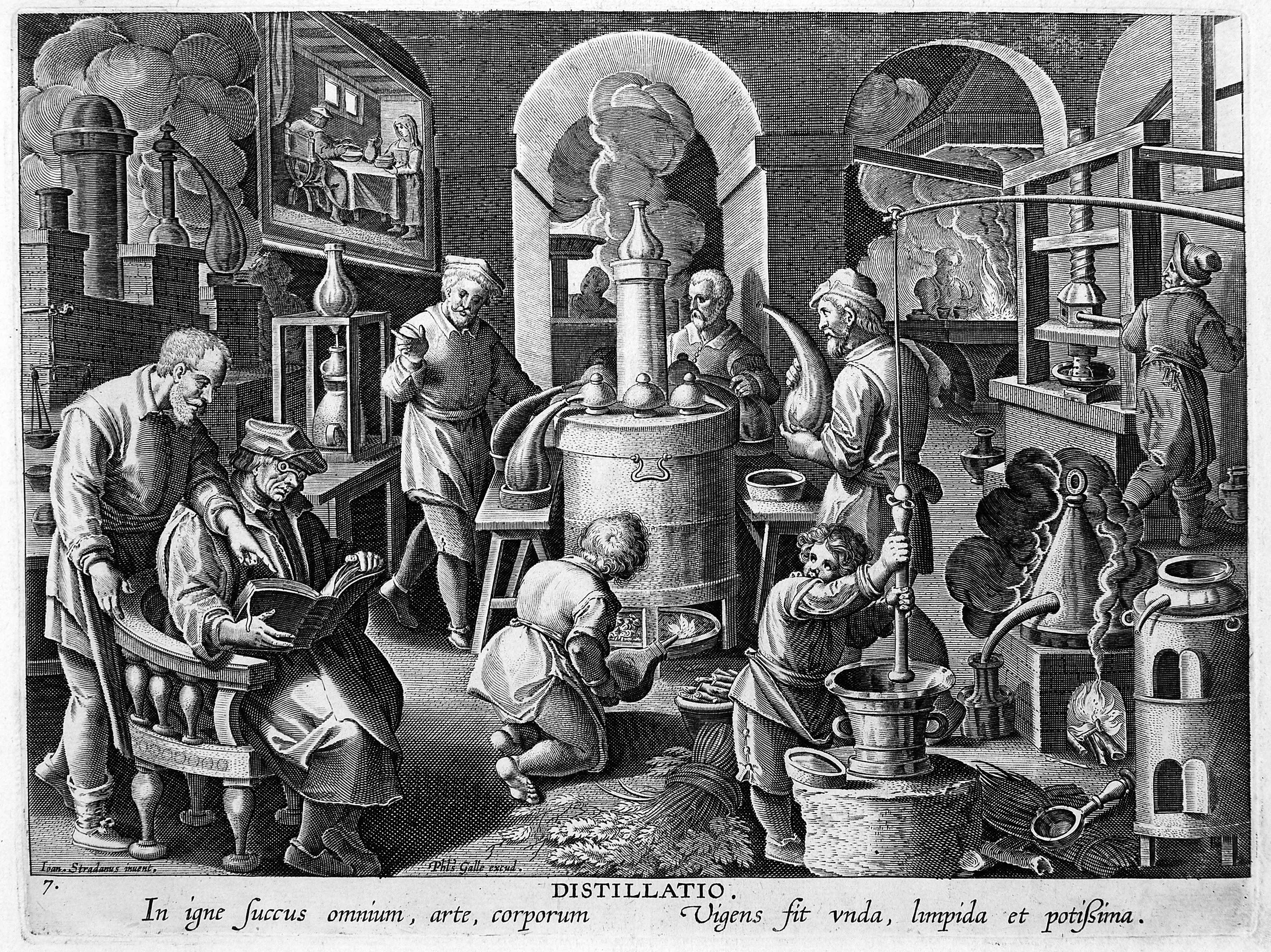 'Distillatio', bespectacled alchemist studying in his laboratory. Iconographic Collections Keywords: Philipp Galle; Alchemy; Chemistry; Jan van der Straet